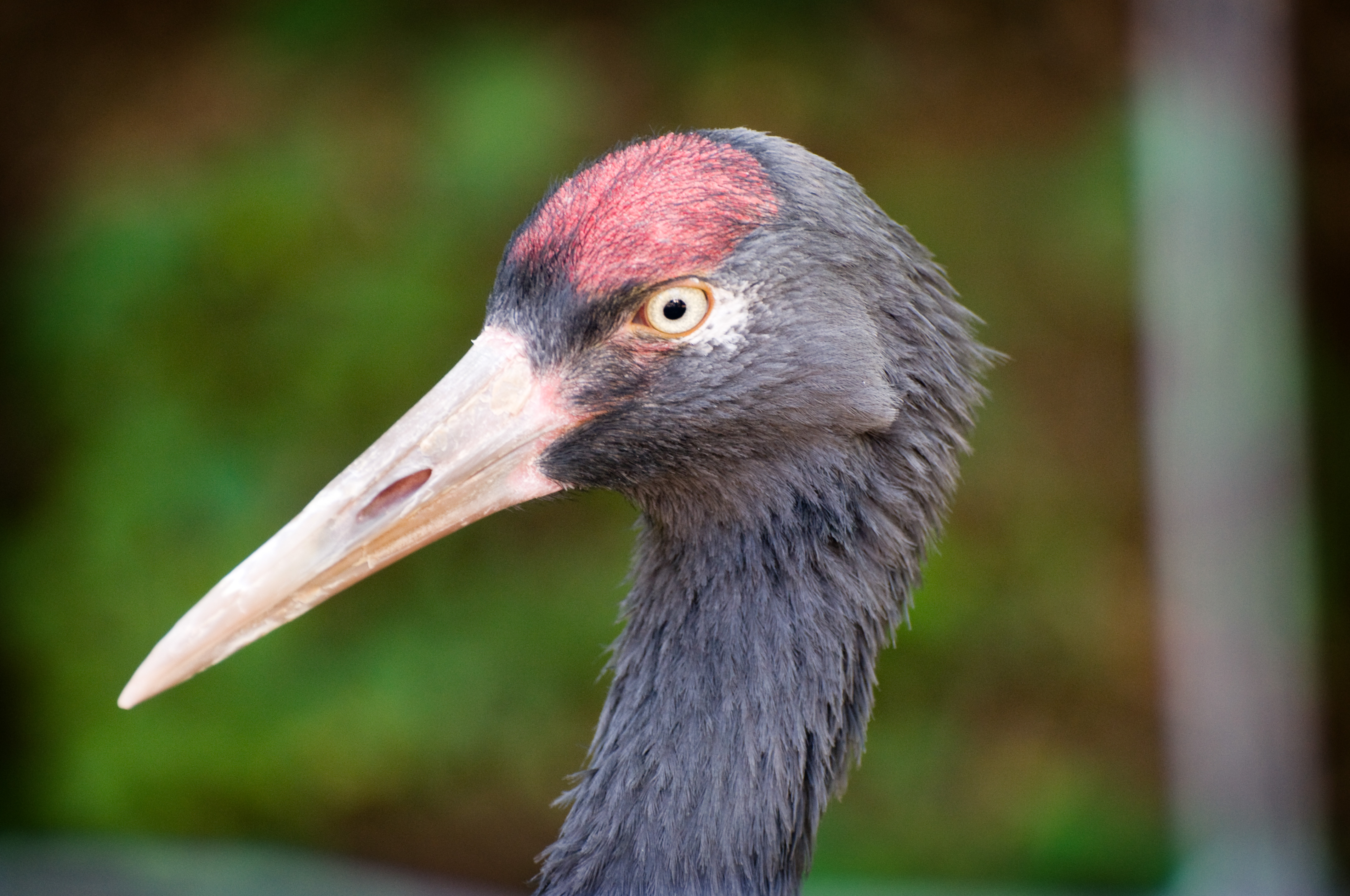 Black-necked Crane at Stone Zoo, Stoneham, USA.